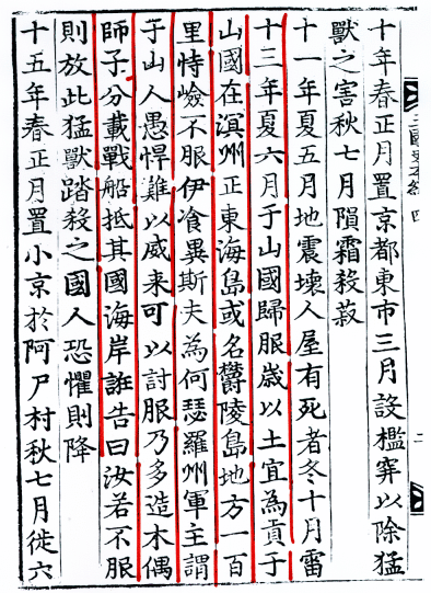 It was written that Usan（于山） was alias Ulleundo（鬱陵島）. 한국어 (조선): 우산국（于山國）=울릉도（鬱陵島）